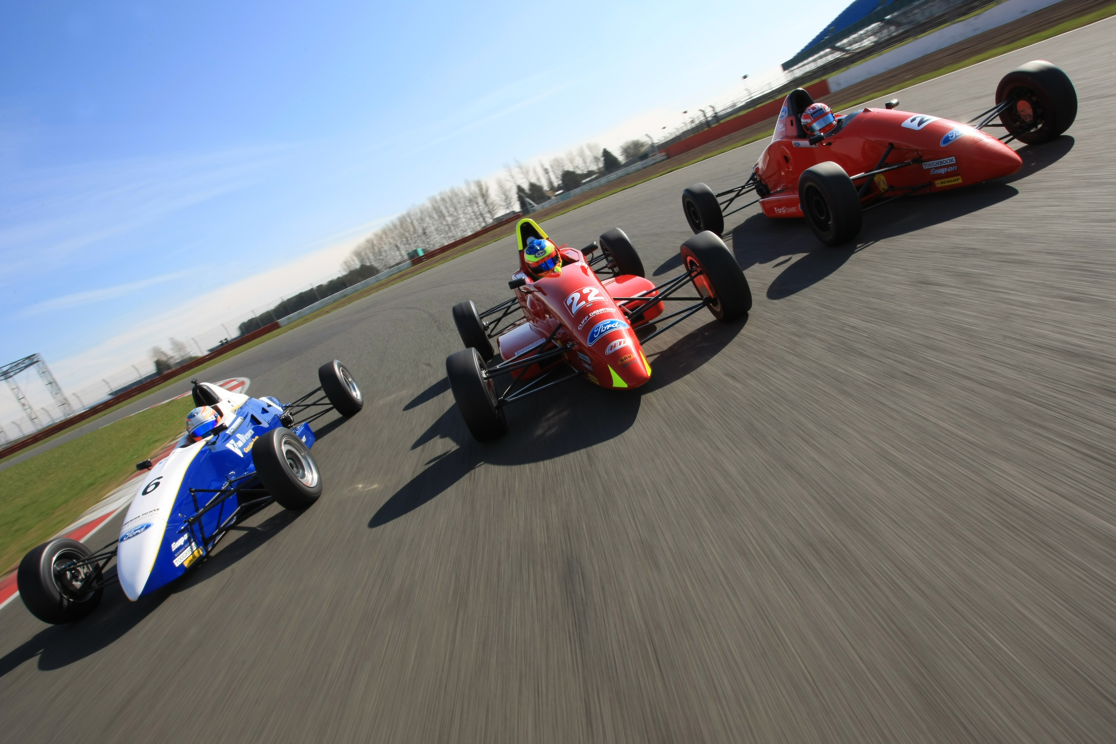 Tracking shot of Van Diemen, Ray and Mygale Duratec Cars